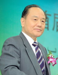 Wu Sike at Beijing International Studies University, 2011